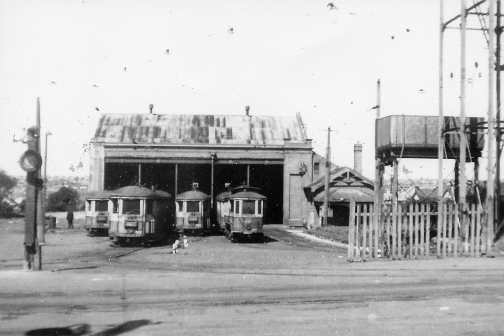 Ebnfield tram depot in the late 1940s